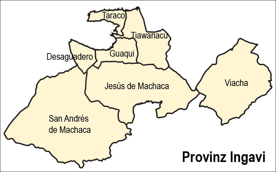 Ingavi Province, Bolivia, map of municipios